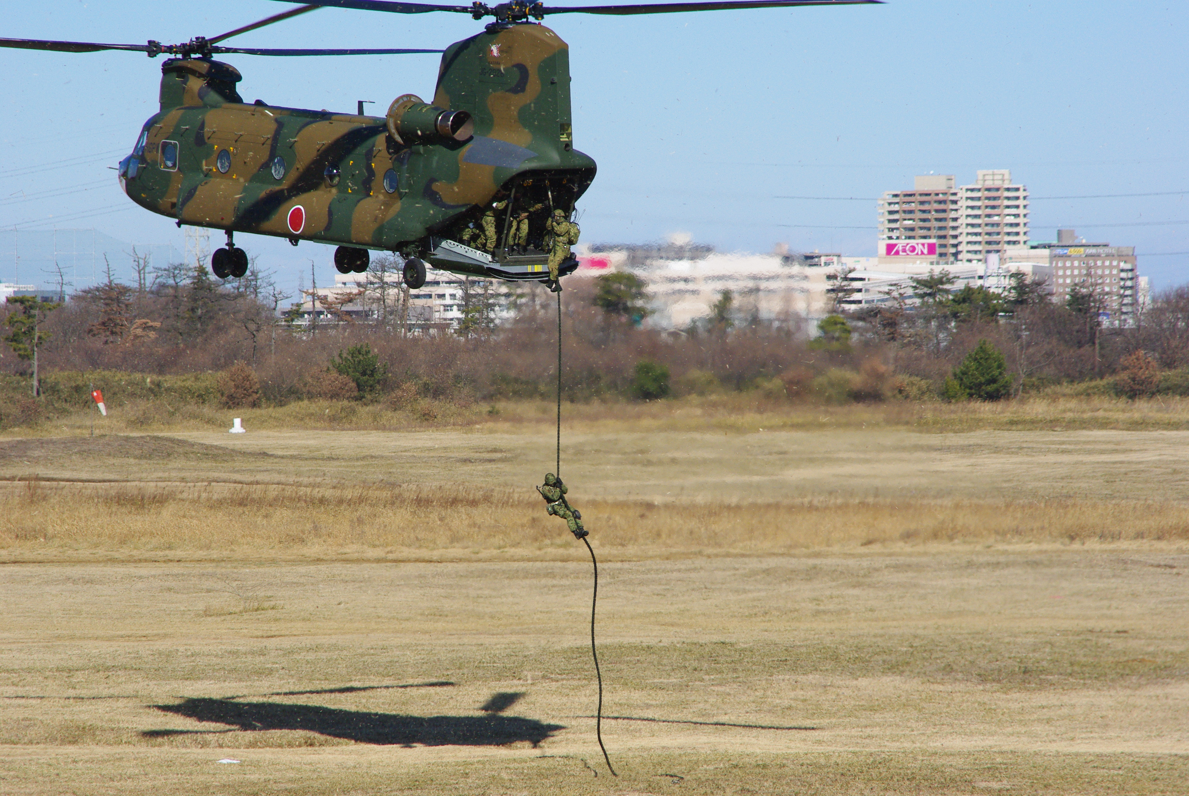 In Narashino, Japan, JGSDF 1st Airborne Brigade 2009 first drop manuver. Taken by Los688. PD-self